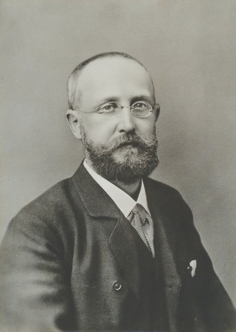 Jacob Munch Heiberg (1843-1888), norwegian professor of medicine